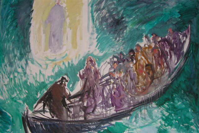 Saint Olav's church (painting:Trondur Paturson)